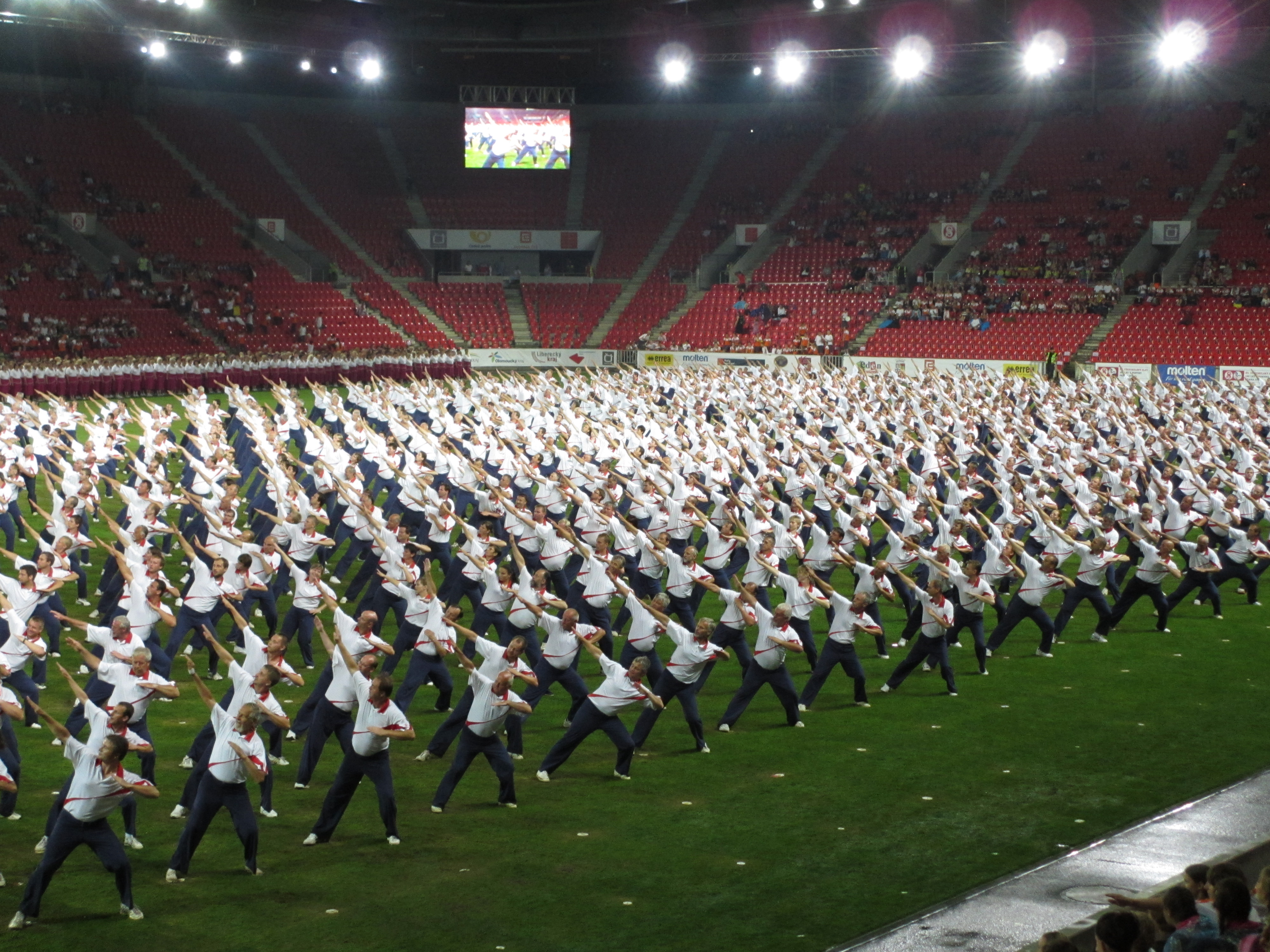 Gathering of Czech sport club Sokol called "XV. sokolský slet", Stadion Eden (called in 2012 Synot Tip Arena), Prague, Czech Republic